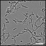 Representative phase-contrast image of LNCaP cells. Scale bar represents 100µm.